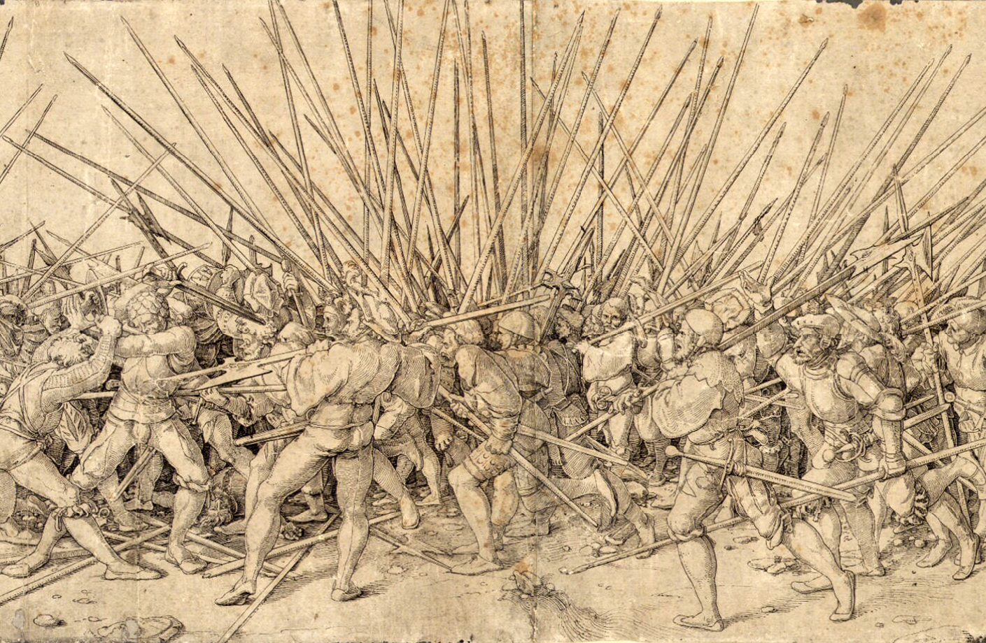 Swiss and Landsknecht soldiers engage in the exceptionally-fierce hand to hand combat known as "bad war." The long spear shafts are their pikes, which became awkward to handle if the push of pike became too disorganized. In that case, halberds and swords became the deadliest weapons. Engraving by Hans Holbein the Younger. Albertina, Vienna.